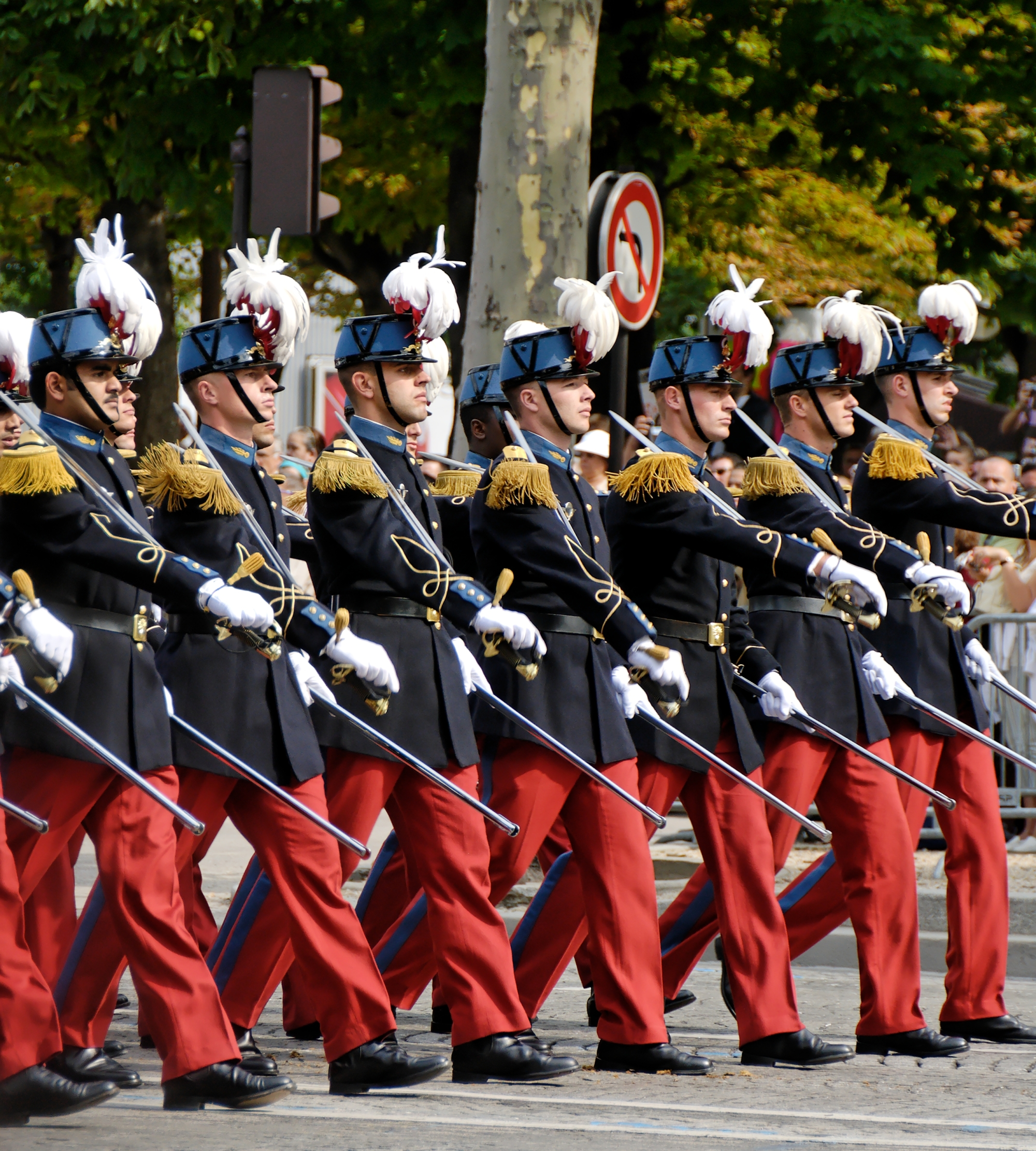 First rank of the cadets of the 2004-2007 class (“Lieutenant Brunbrouck”) of the ESM Saint-Cyr (French military academy) during the Bastille Day 2007 military parade on the Champs-Élysées. First one on the left is Sheikh Joaan ben Hamad Al-Thani, son of the Emir of Qatar.